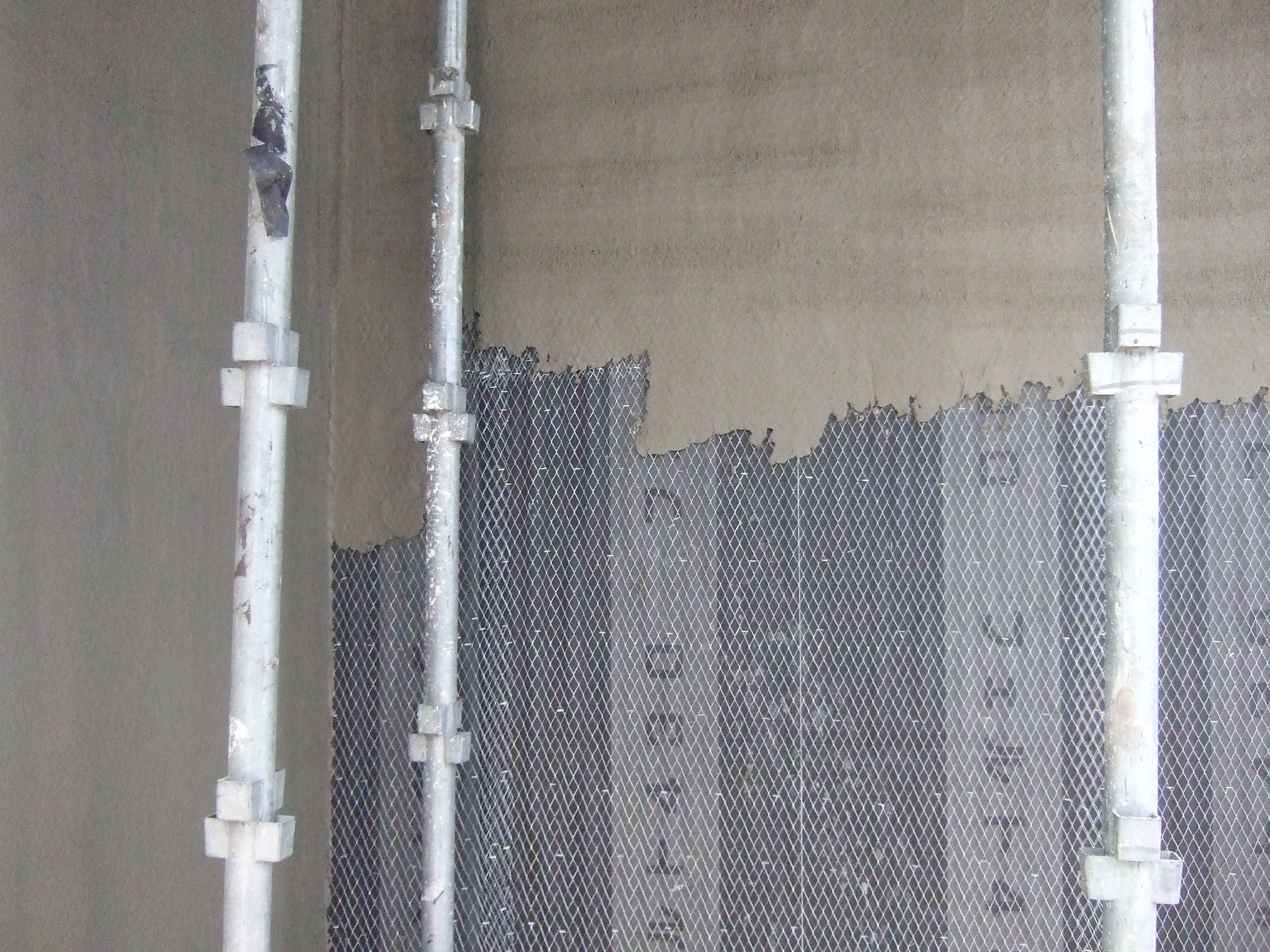 mortar